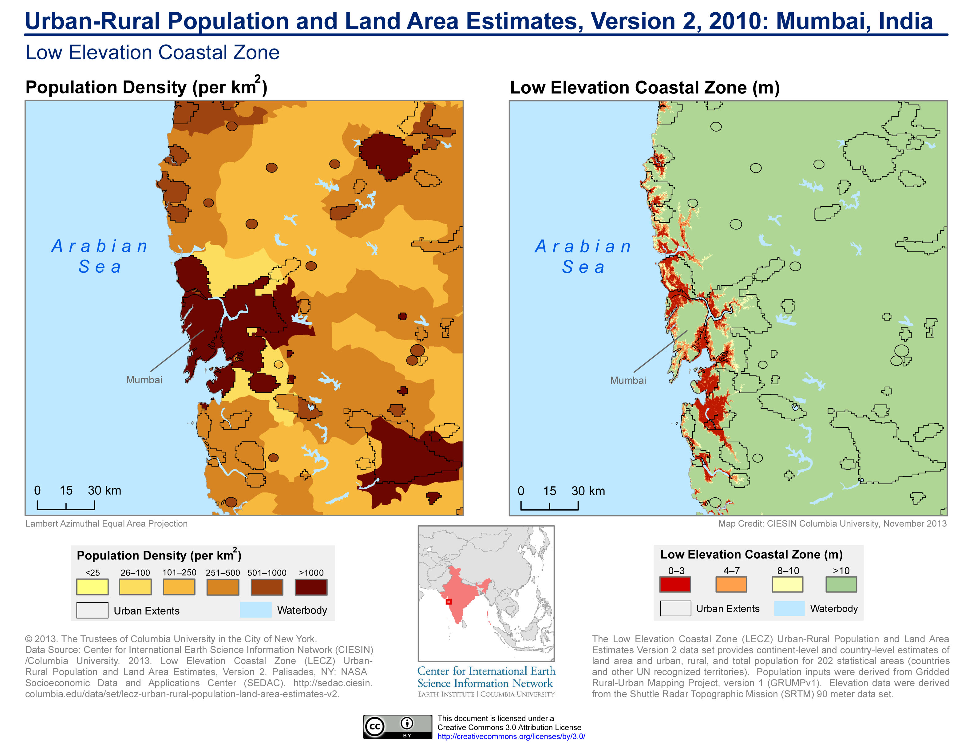 The Low Elevation Coastal Zone (LECZ) Urban-Rural Population and Land Area Estimates Version 2 dataset provides continent-level and country-level estimates of land area and urban, rural, and total population for 202 statistical areas (countries and other UN recognized territories). Population inputs were derived from Gridded Rural-Urban Mapping Project, Version 1 (GRUMPv1). Elevation data were derived from the Shuttle Radar Topographic Mission (SRTM) 90 meter dataset.